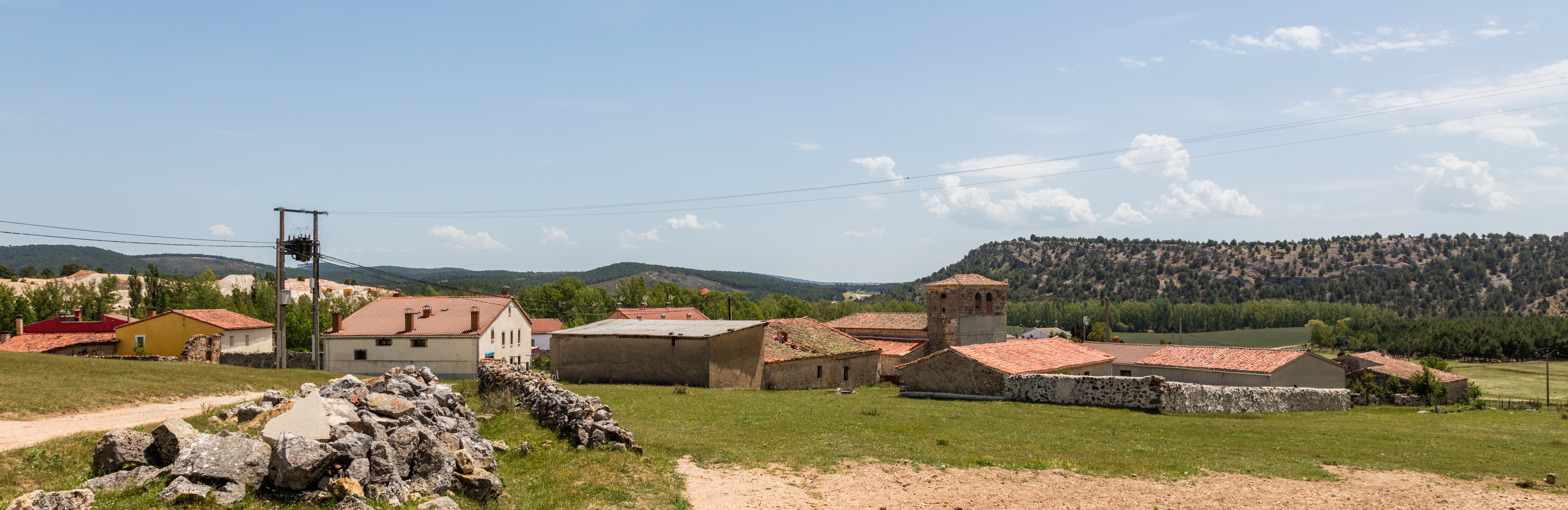 Orillares, Soria, Spain